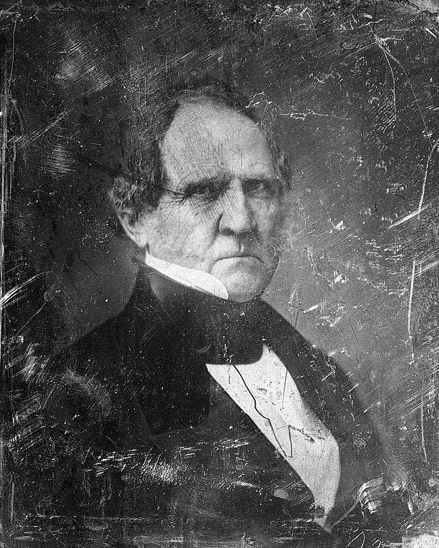 Category:Images of people of the American Civil War